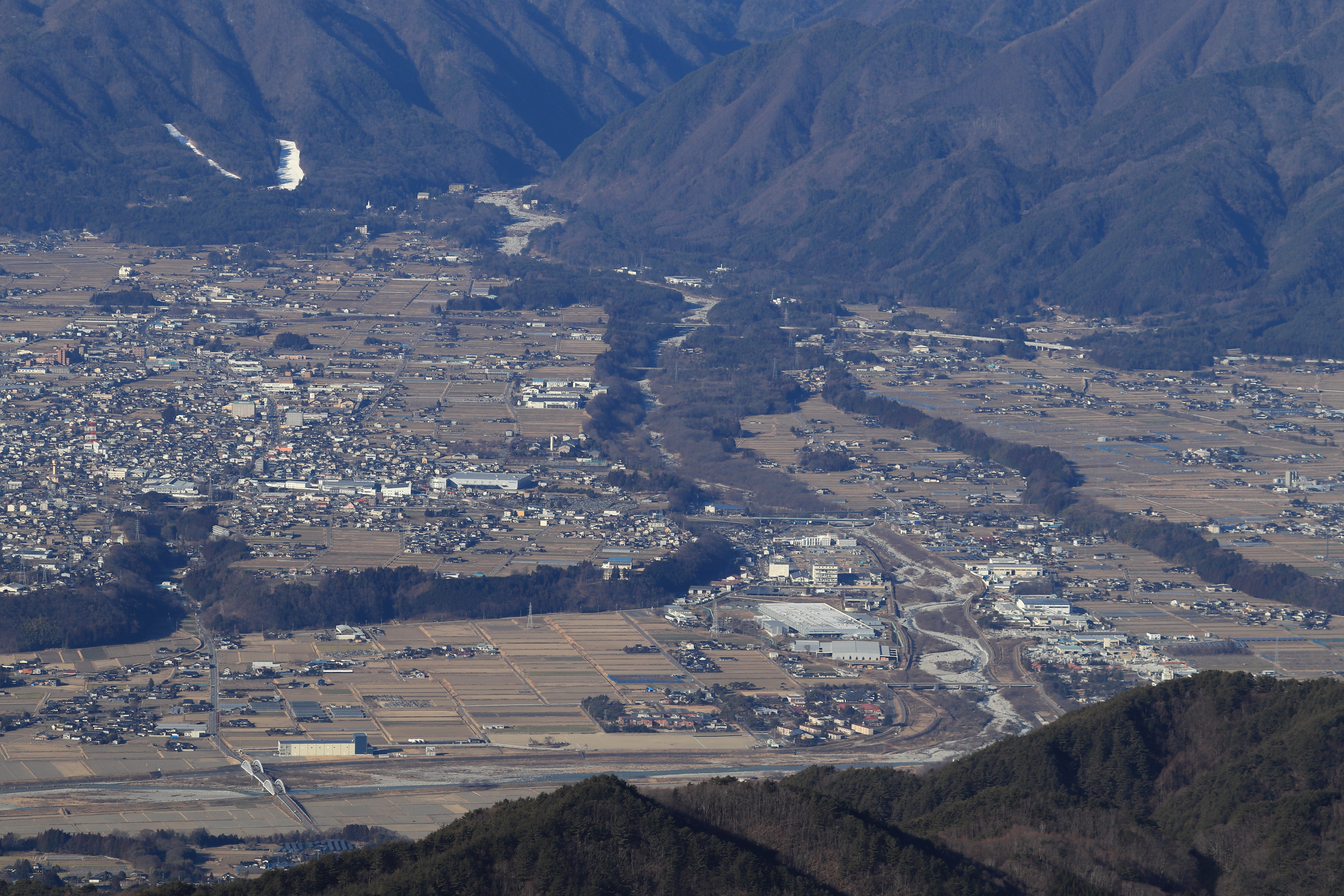 Otagiri River seen from Mount Tokura in Komagane, Nagano Prefecture, Japan. Canon EOS Kiss X9